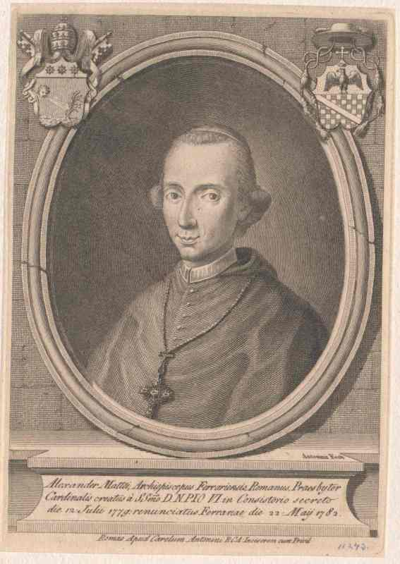 Portrait of Alessandro Mattei (1744-1820)